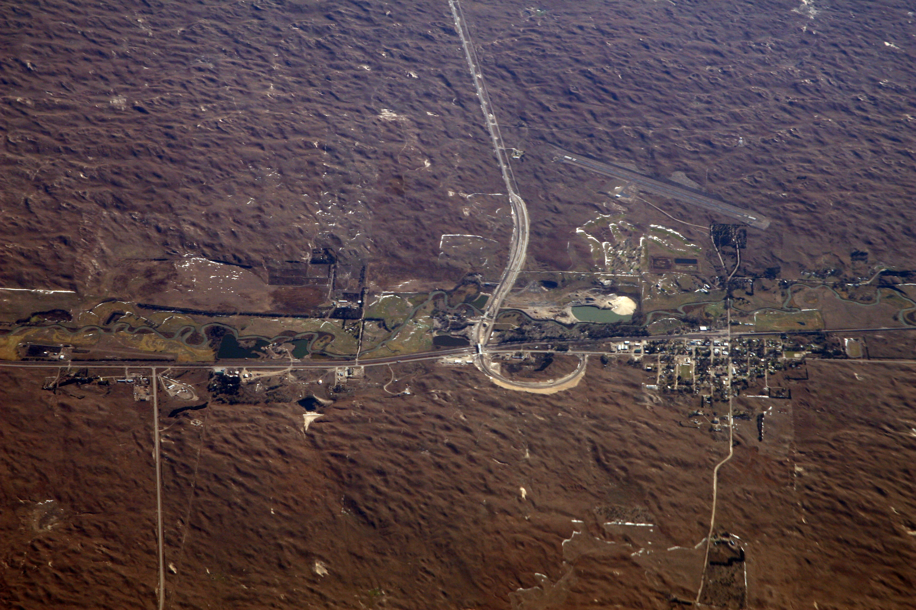 Thedford, Nebraska, in the midst of Nebraska's vast sand hills country. Nearest town to the Nebraska National Forest (far upper left corner), an anomalous patch of dark evergreen furrows on the sandhills of Nebraska. Says Wikipedia, "It was established in 1902 by Charles E. Bessey as an experiment to see if forests could be created in treeless areas of the Great Plains for use as a national timber reserve. This effort resulted in a 20,000-acre (80.9 km²) forest, the largest human-planted forest in the United States." From the air it is the most remarkable feature in the region.